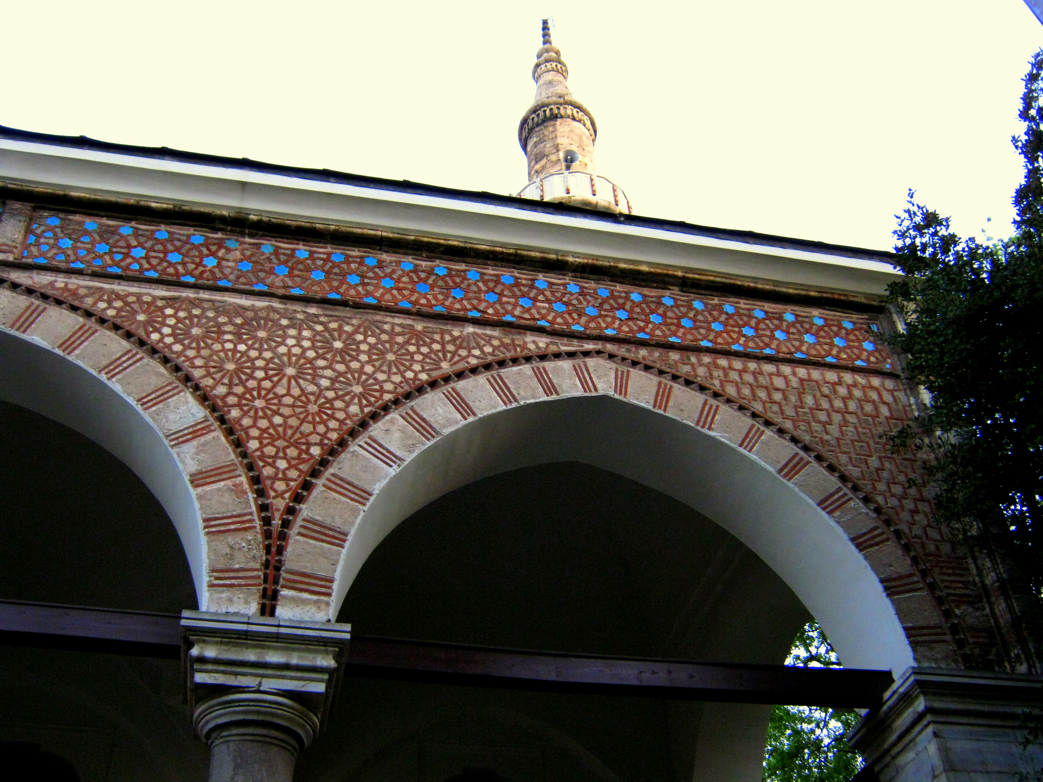 MURADİYE CAMİİ